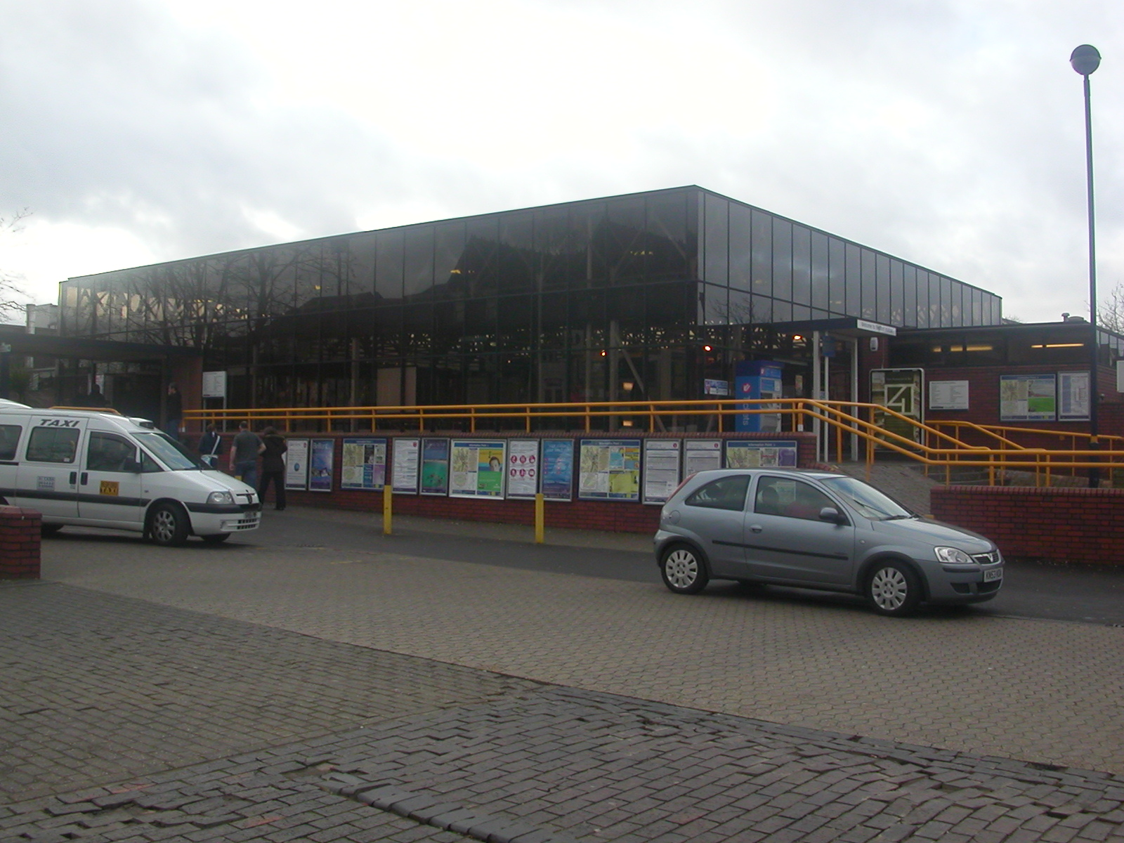 Main ticket office building at Bedford (Midland) Station.